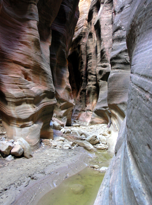 Orderville Canyon, a slot canyon route in Zion National Park